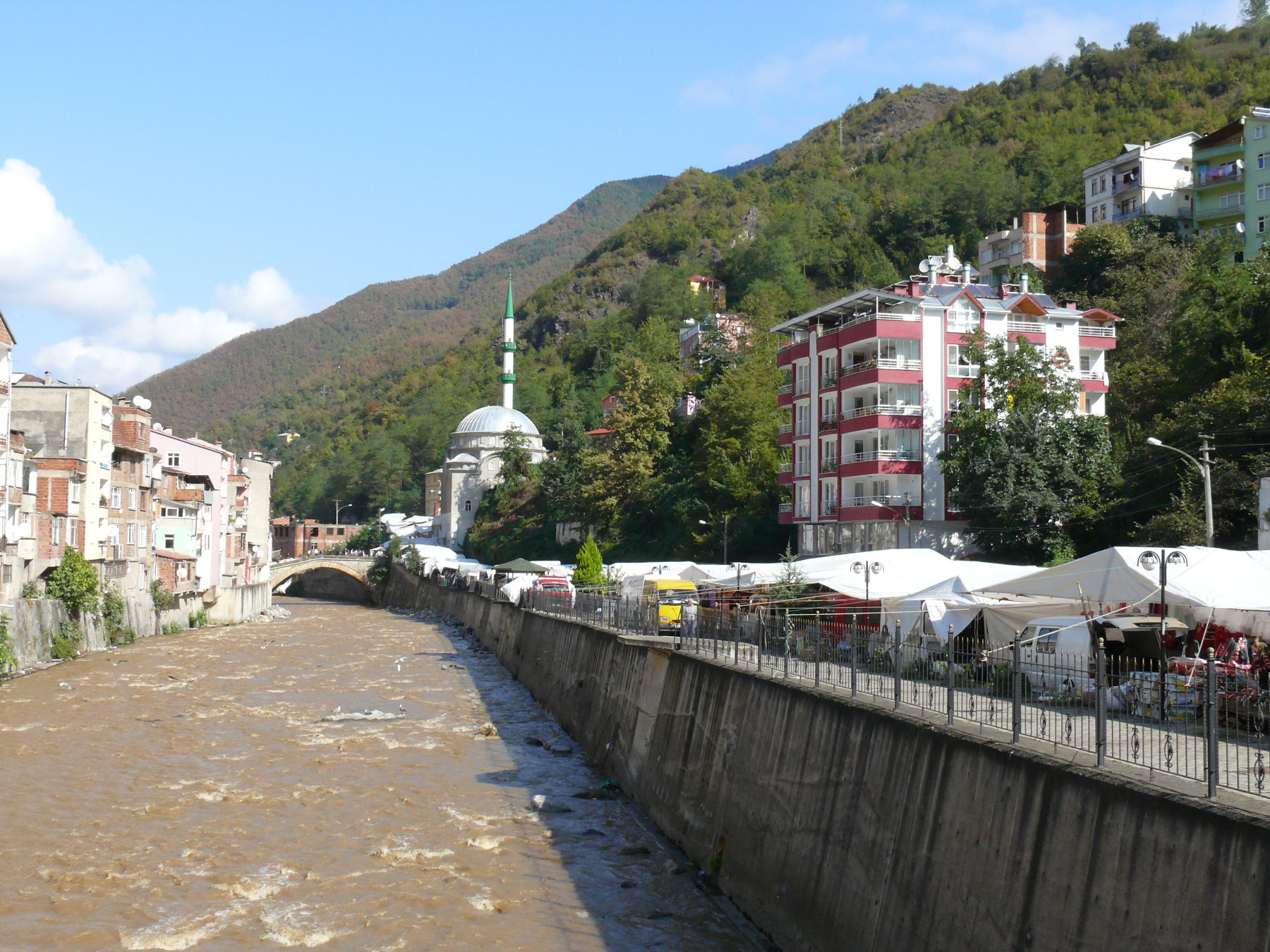 Dereli town and Aksu Deresi river, Giresun Province, Turkey.